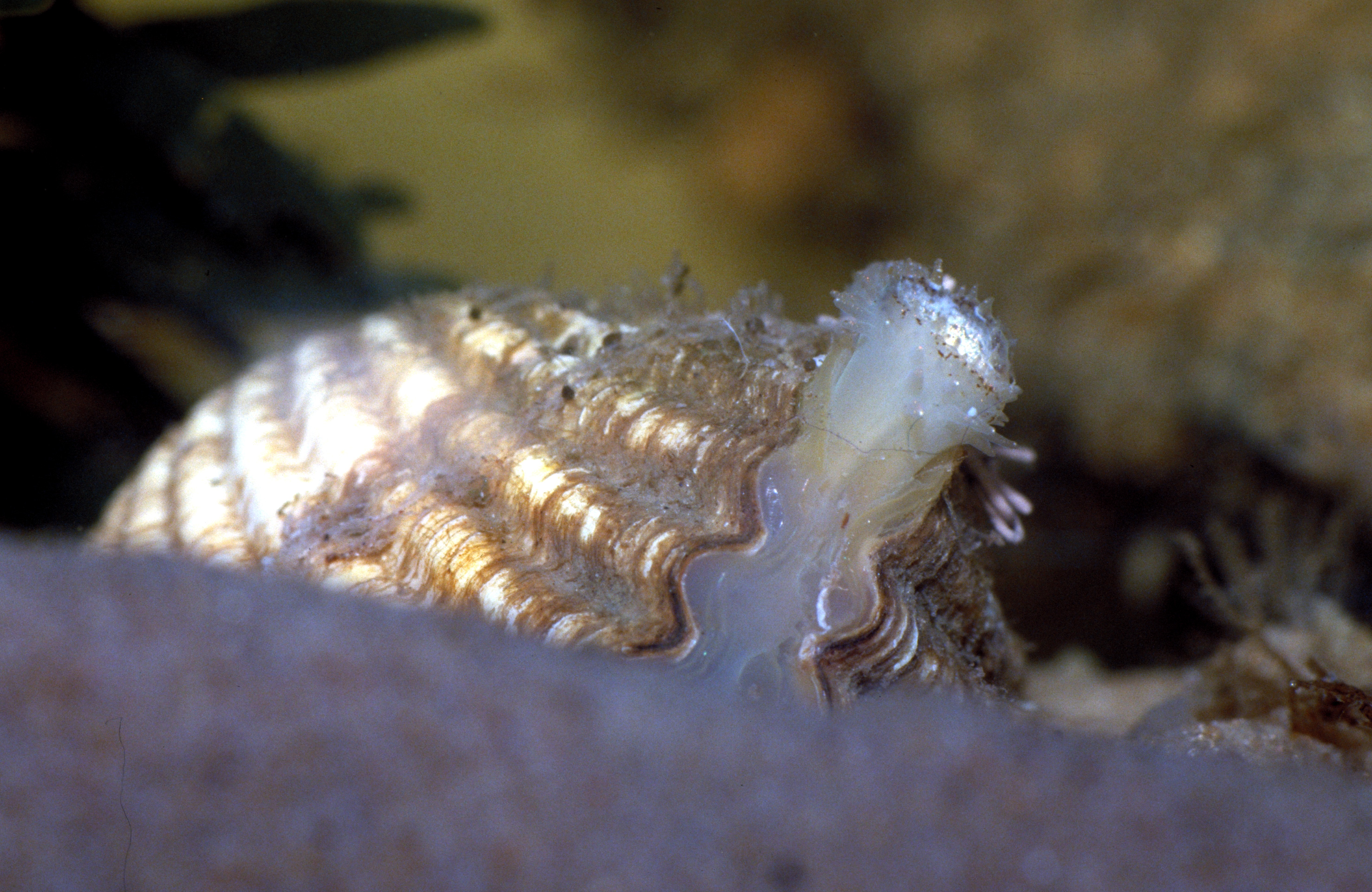 cockle (Acanthocardia echinata)